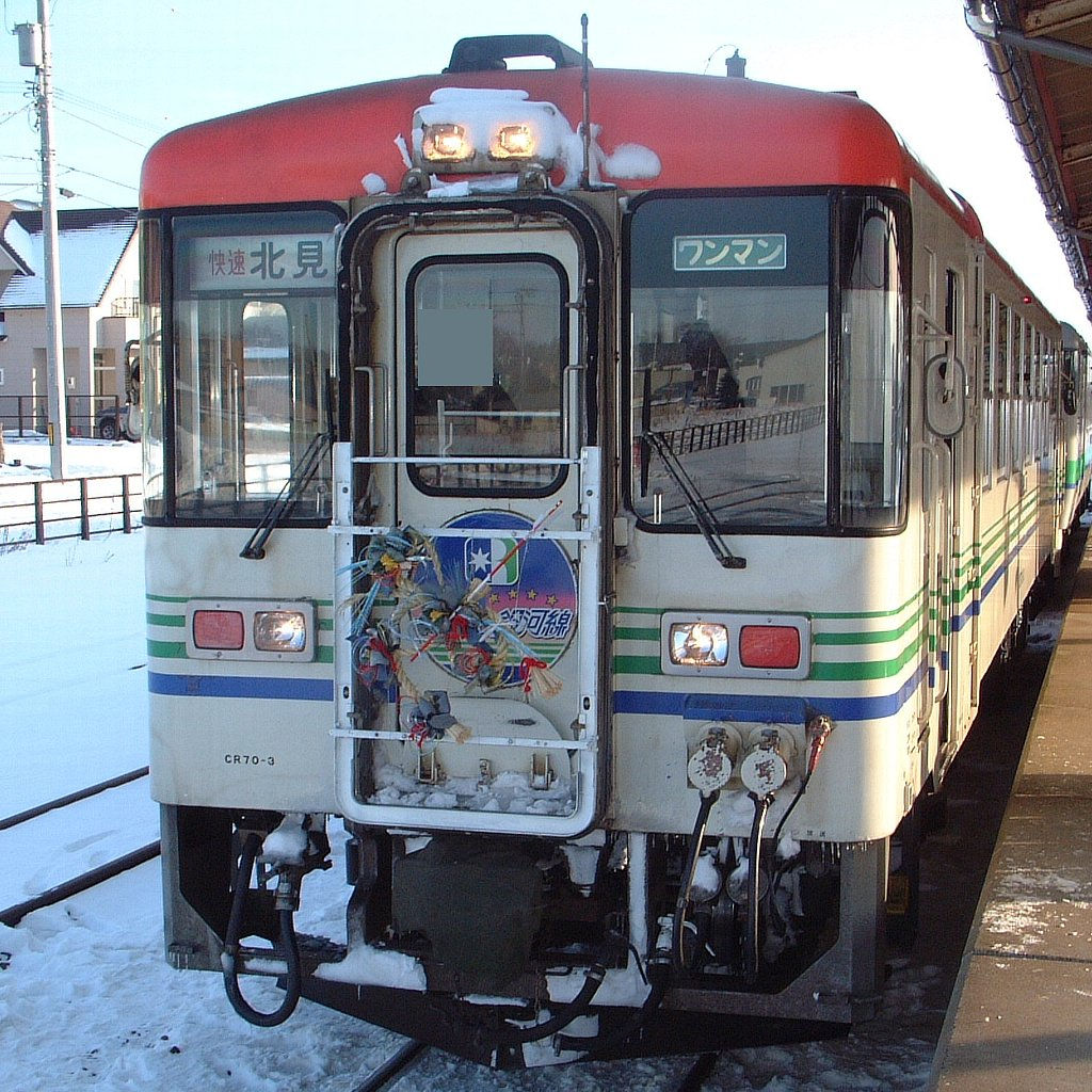 CR70 type DMU of Hokkaido Chihokukogen Railway．With JR-hokkaido Ikeda station.(3st car)